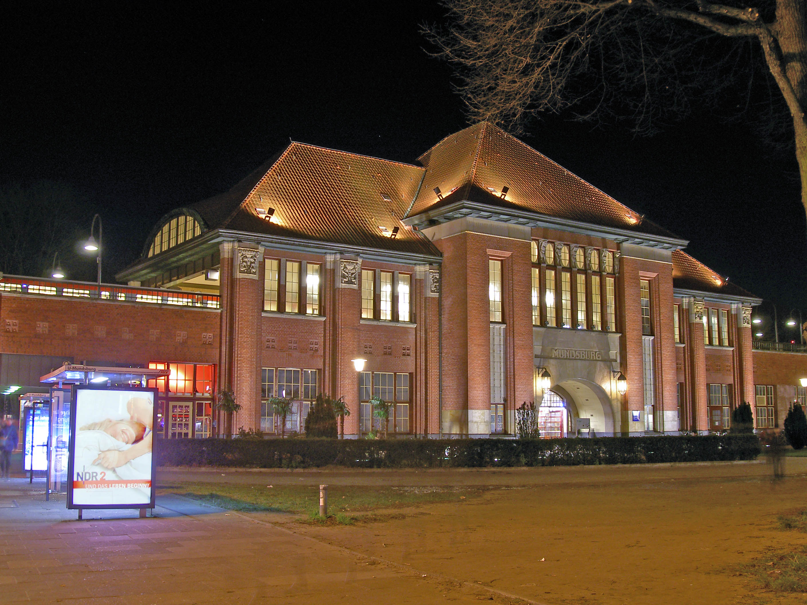 Hamburg's U-Bahn station Mundsburg, Hamburg, Germany